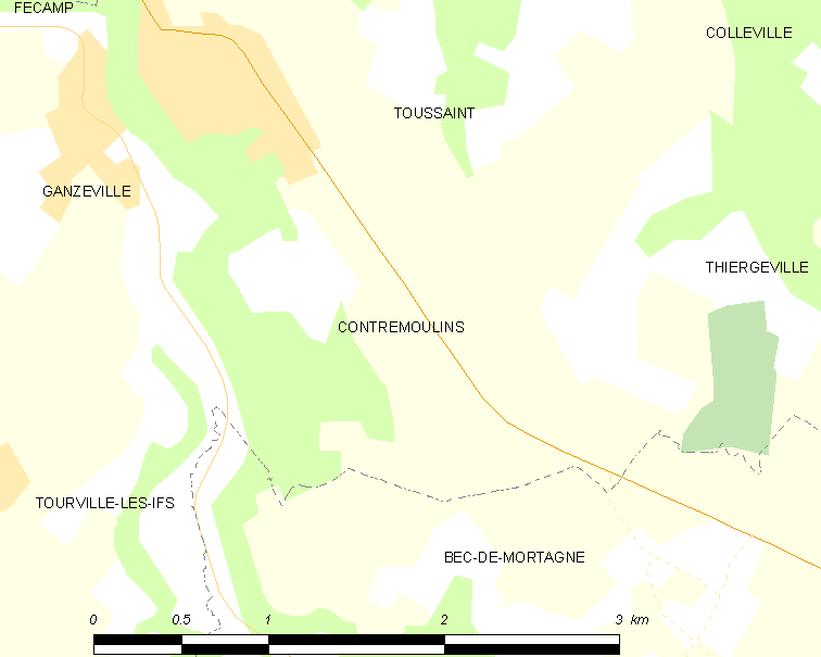 Map of French municipality Contremoulins